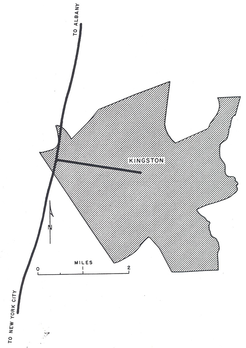 Interstates in today's terms I-87 I-587